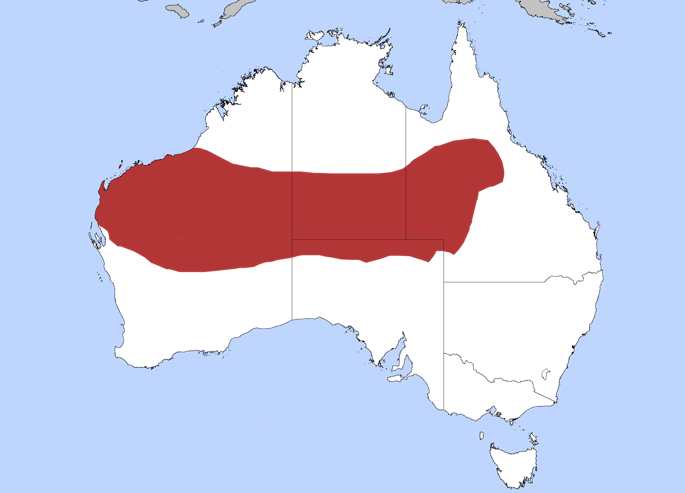 Distribution of the Perentie